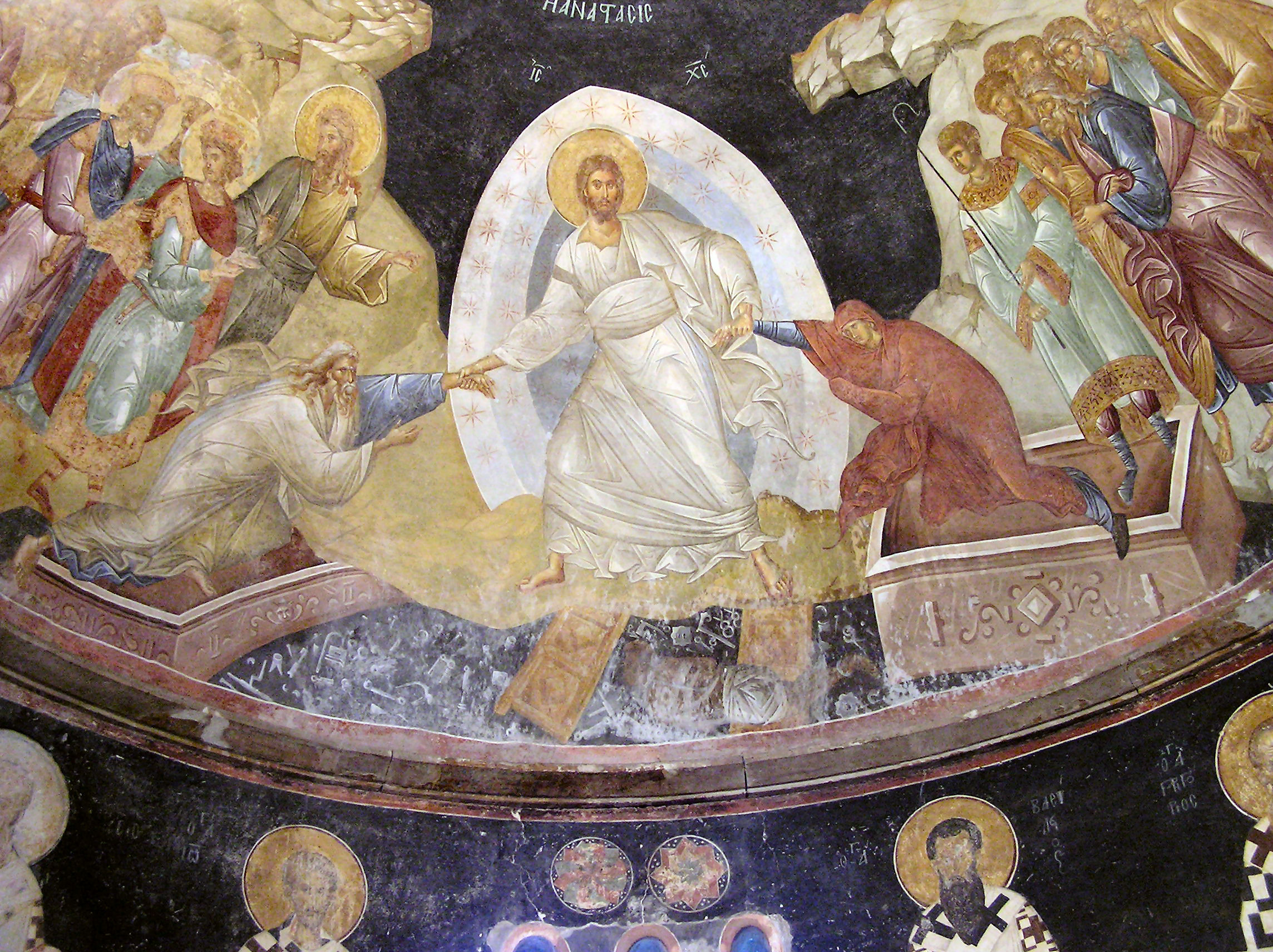 Jesus pulls Adam and Eve out of their graves that lead to Hell or Limbo before he resurrects.